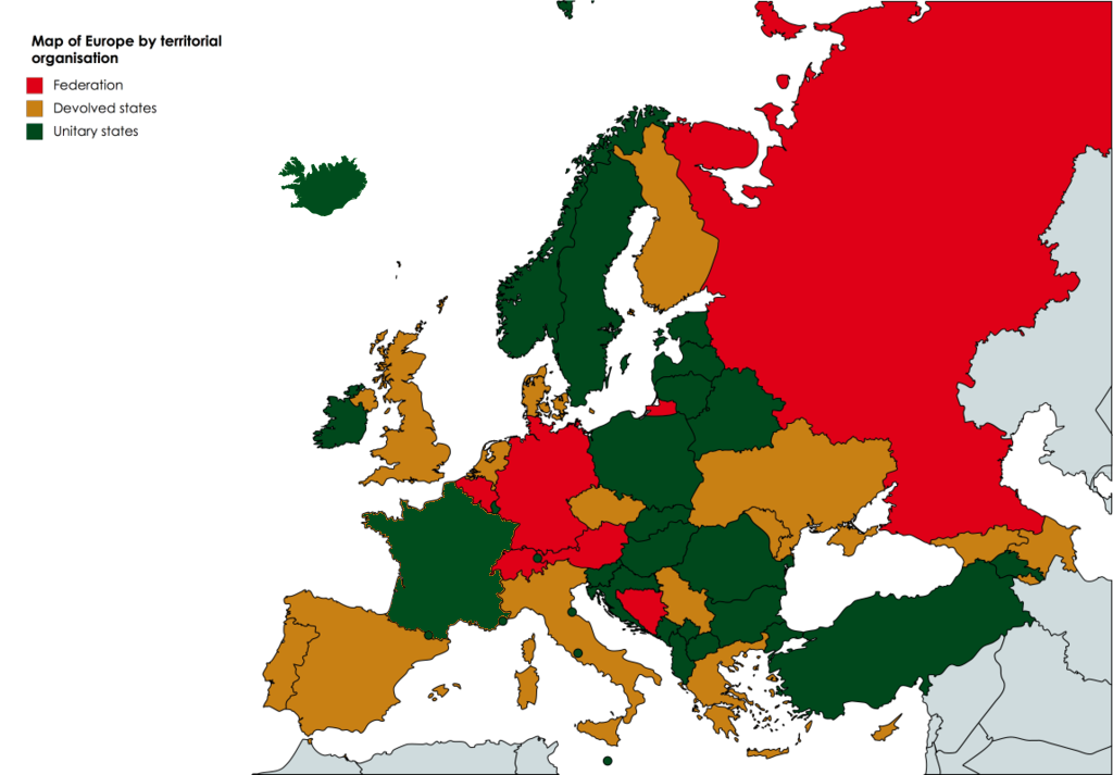 Revised version of previous map